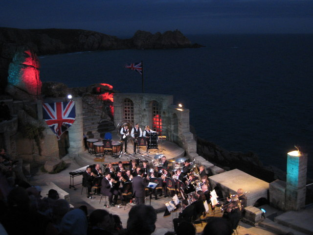 Minack Theatre 'Last Night of the Proms' 2007